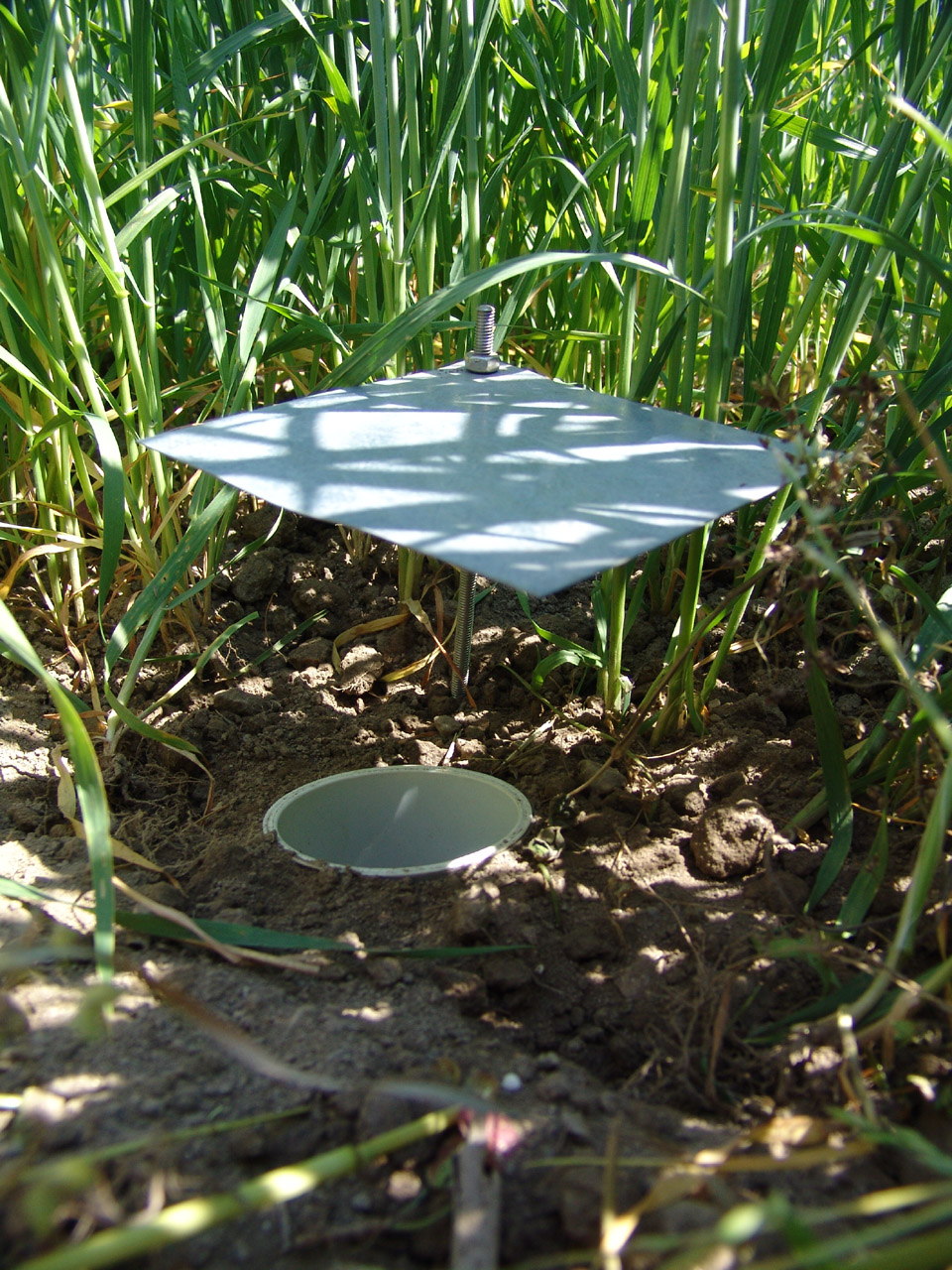 Pitfall trap for catching epigeic animals (especially arthropods), originally invented by H.S. Barber